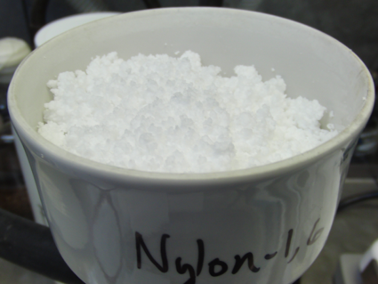 Picture of nylon 1,6 on filter